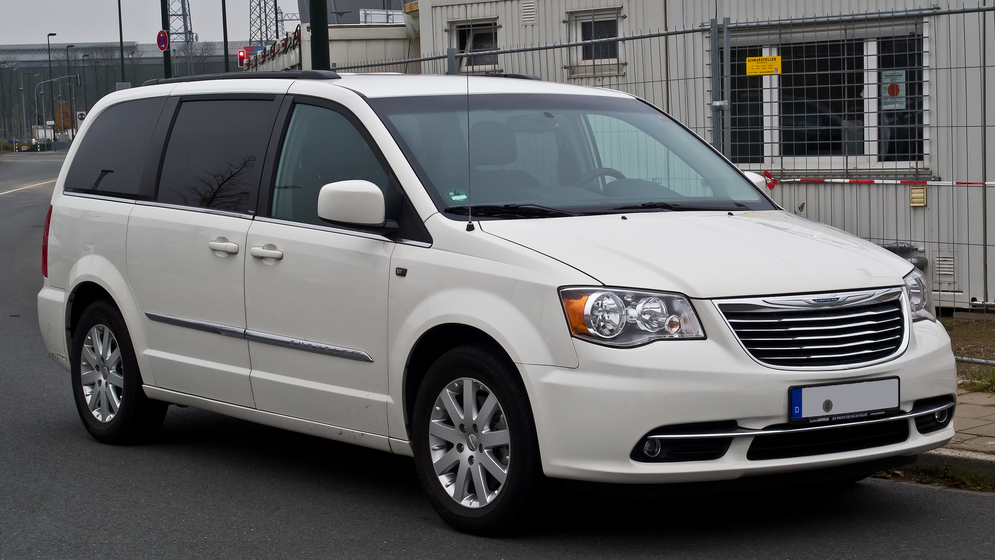 Chrysler Town & Country 3.6 V6 Touring (V, Facelift)